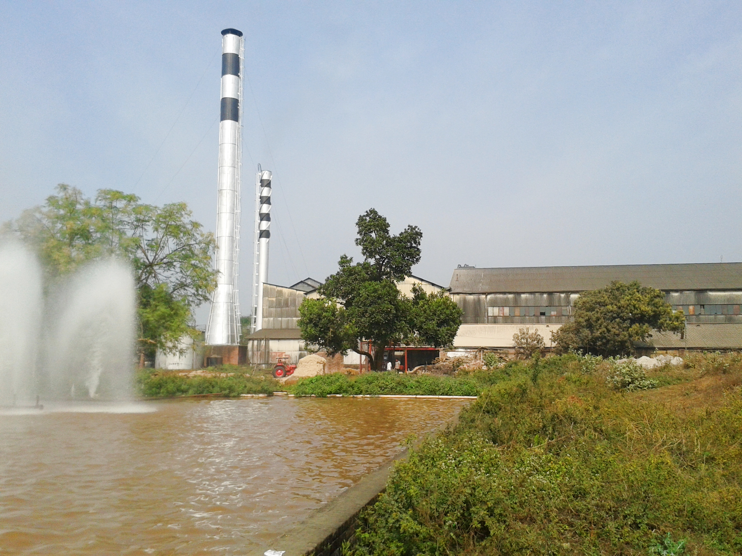 Carew & Company Bangladesh Limited